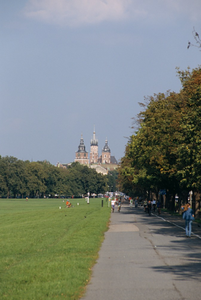 Cracow. Towers of the St. Mary's Church and the Town Hall seen from the cracow Common